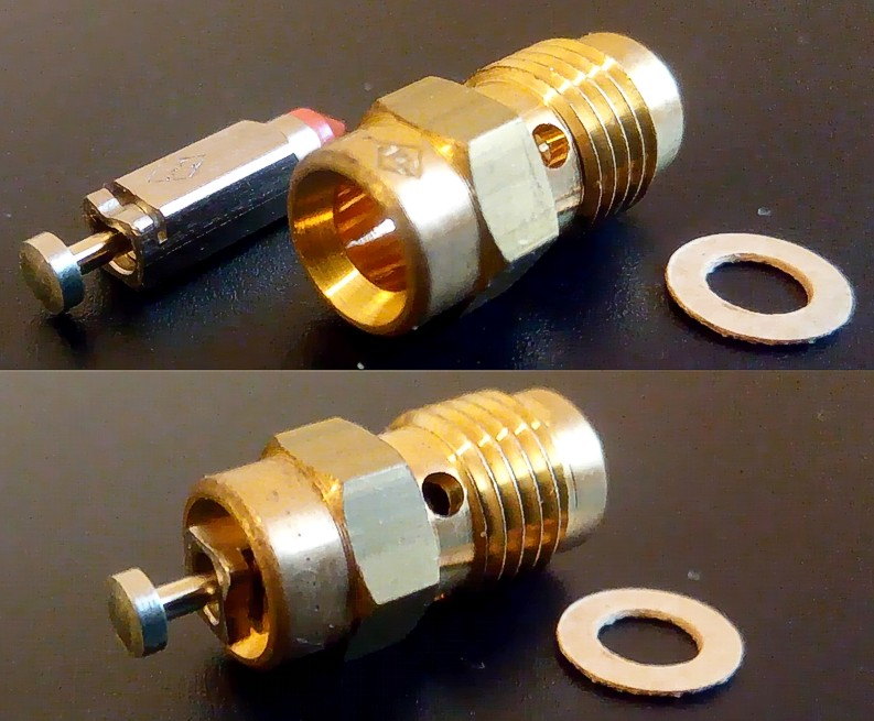 Floating spring floating valve 8649 for garden carburettors, size 200, with 5.2 mm needle.